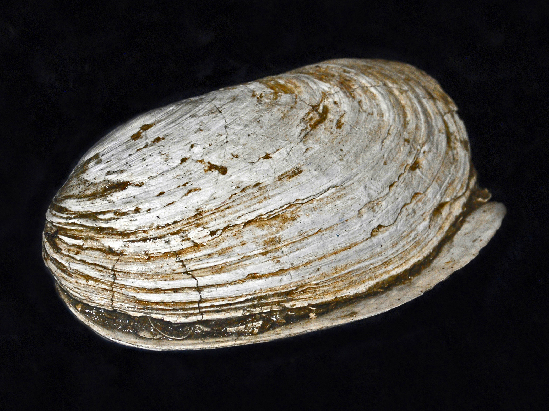 Fossil shell of Lutraria oblonga, on display at the Museo Civico Craveri di Scienze Naturali - Bra